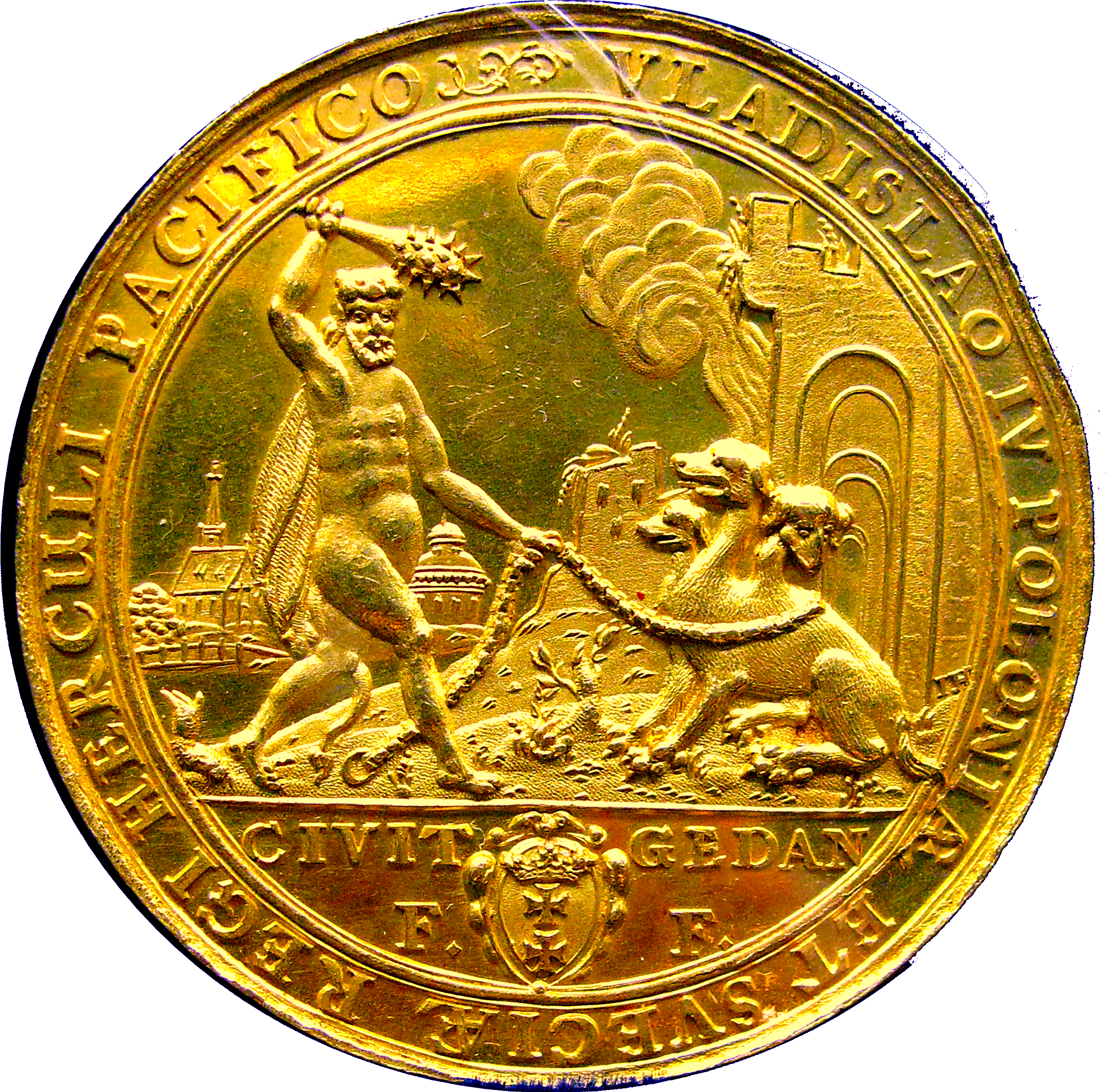 Medal (12 ducats) commemorating victories of Polish King Vladislaus IV over Russia, Turkey and Sweden 1637